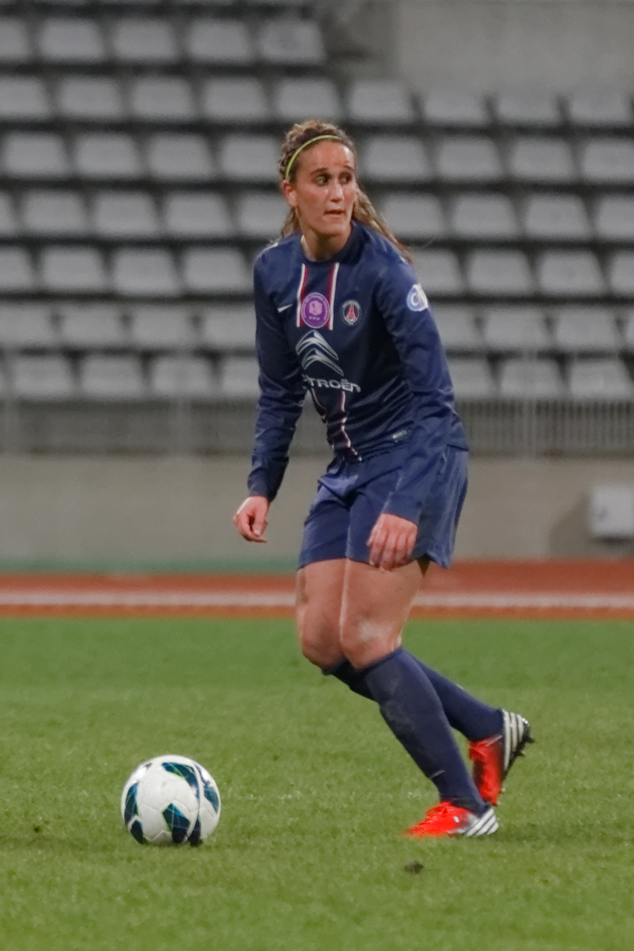 PSG-Juvisy, March 23th, 2013.